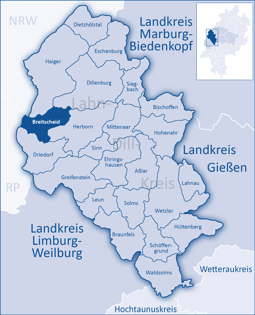 The map shows a district in the area of Lahn-Dill-Kreis